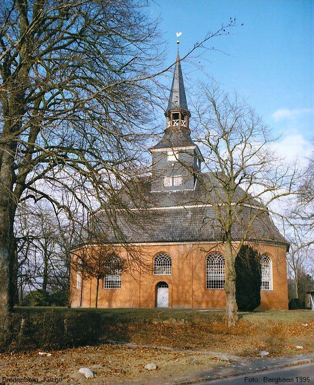 Breitenberg,Schleswig-Holstein, Germany: church, photo 2007